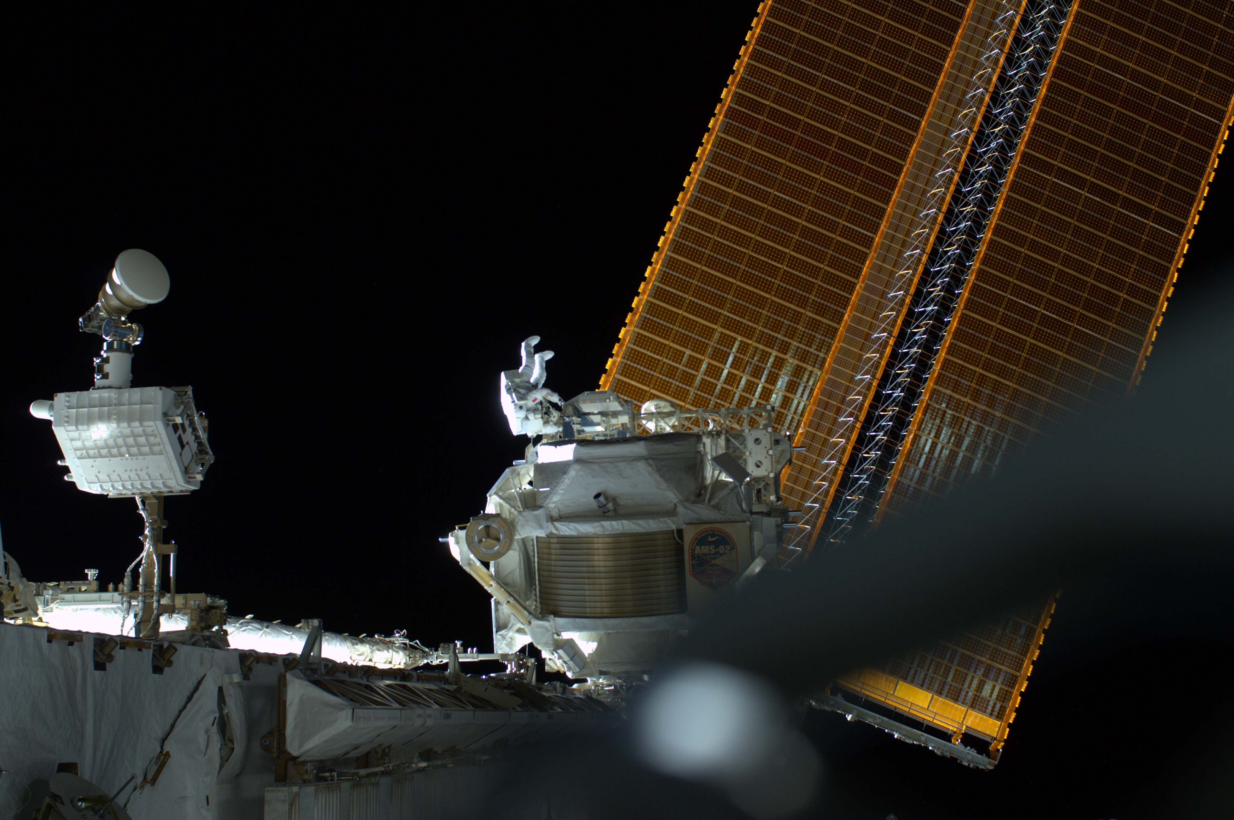 Luca Parmitano retrieves material research samples (MISSE-8) during his first spacewalk outside the International Space Station.